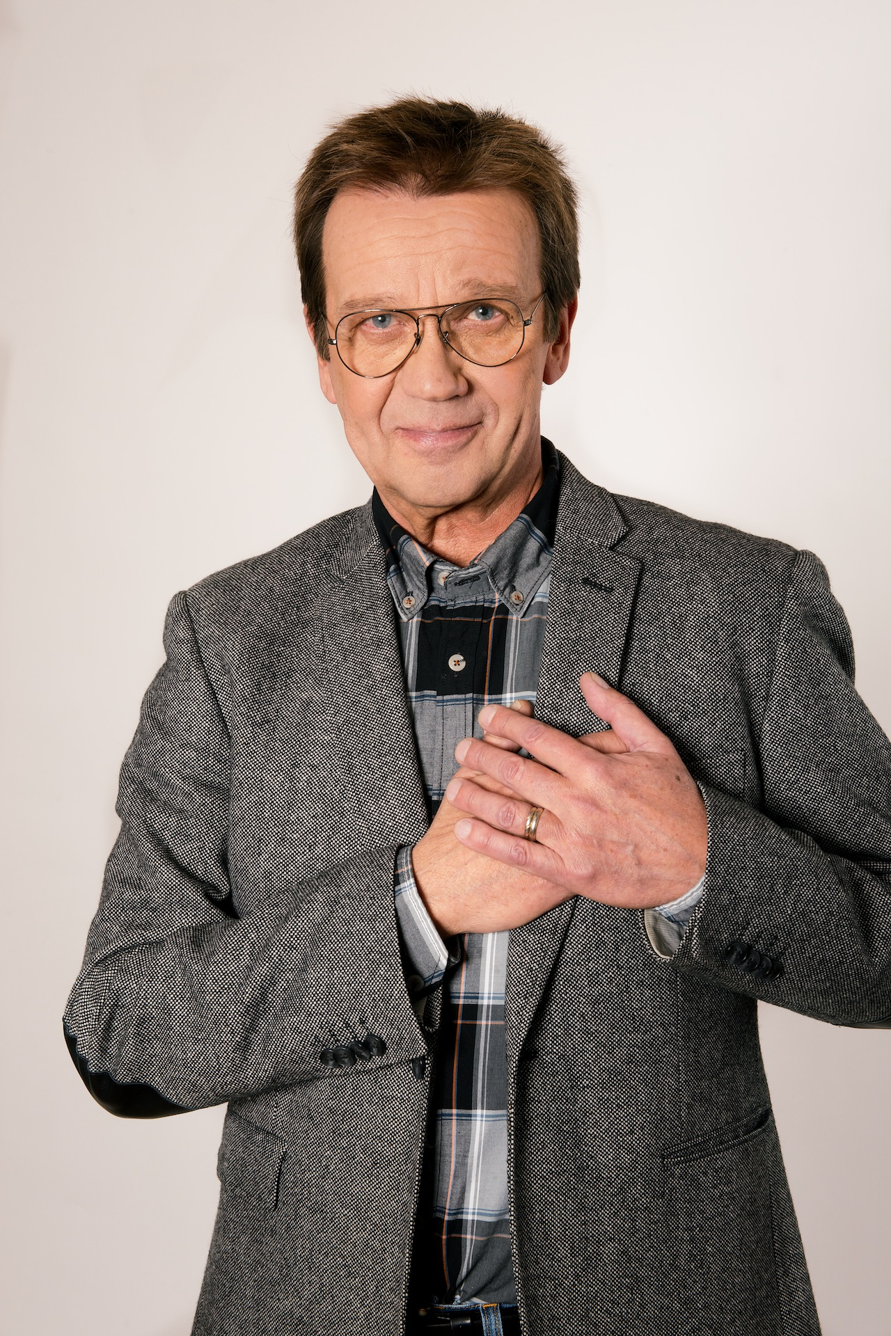 Swedish singer and actor Björn Skifs in a promotional photo for the The Swedish Heart-Lung Foundation.